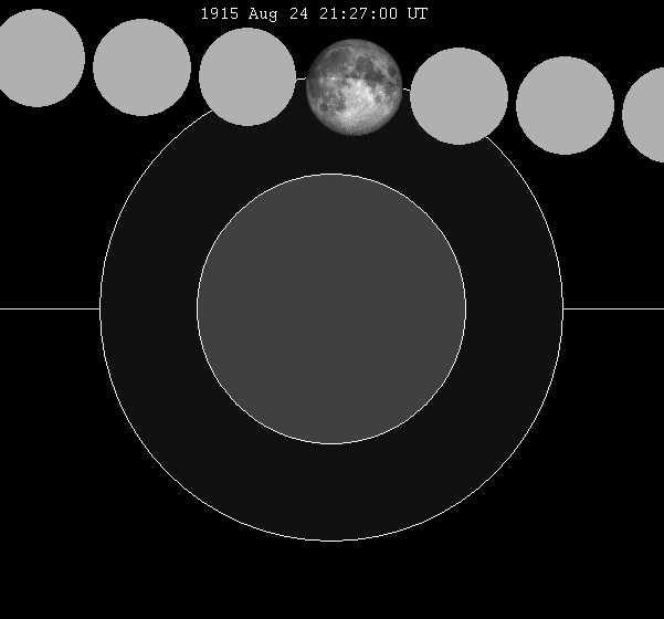 =lunar eclipse chart of moon's path through the earth's shadow. thumb